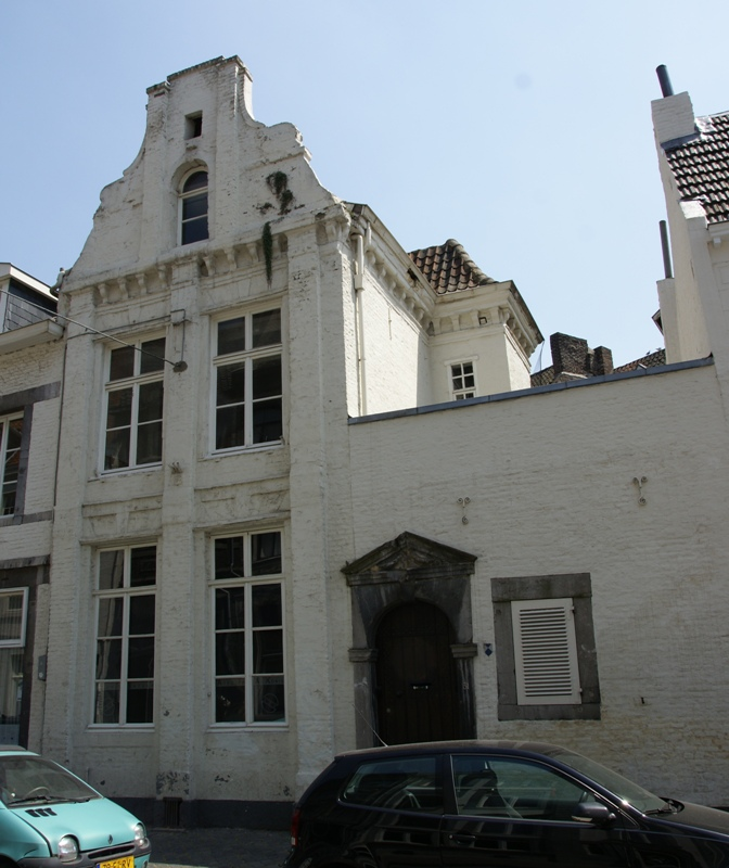 National monument no. 27204 - Kleine Gracht 31, Maastricht, The Netherlands